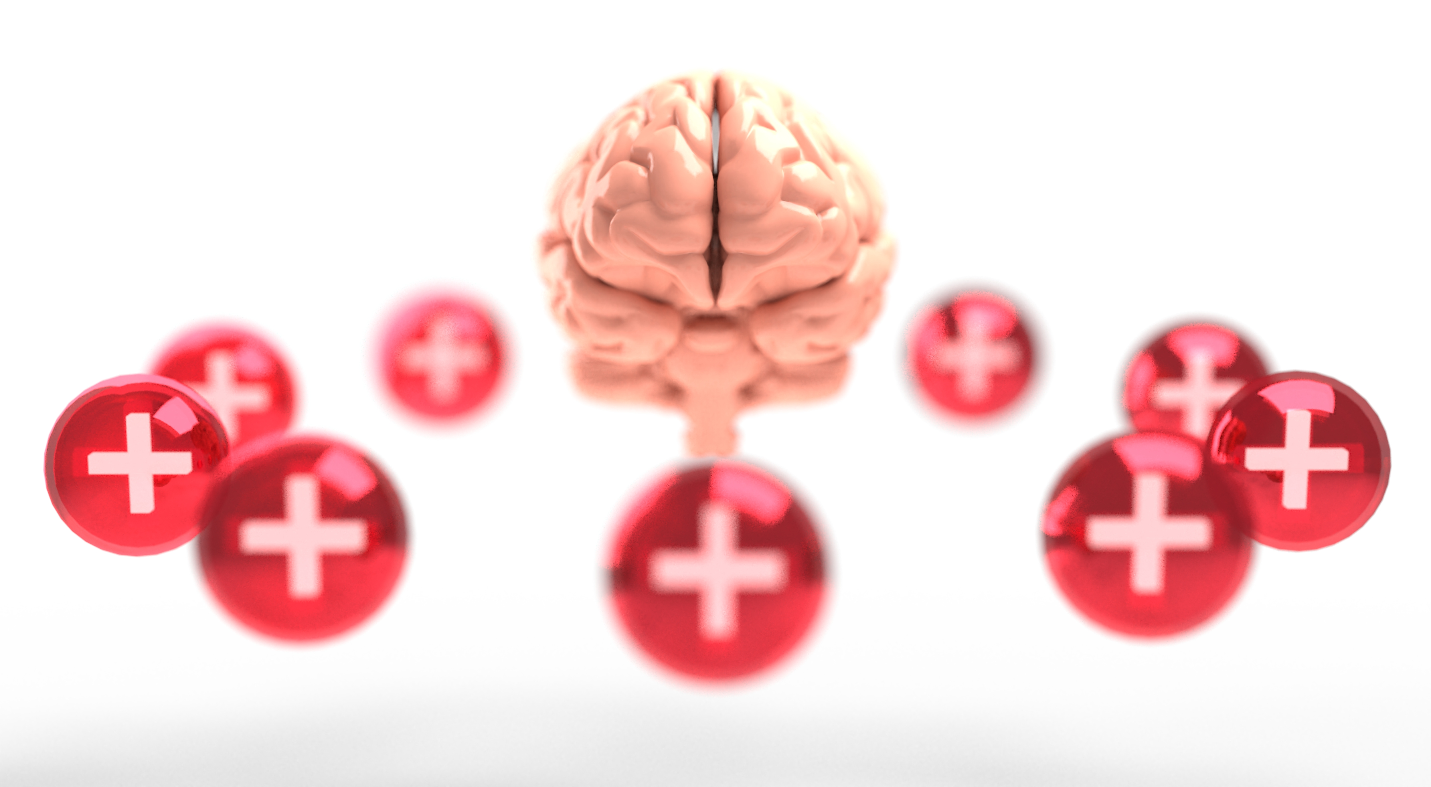 Free 3d illustration image by Quince Media. For more free 3d graphics files please visit us at